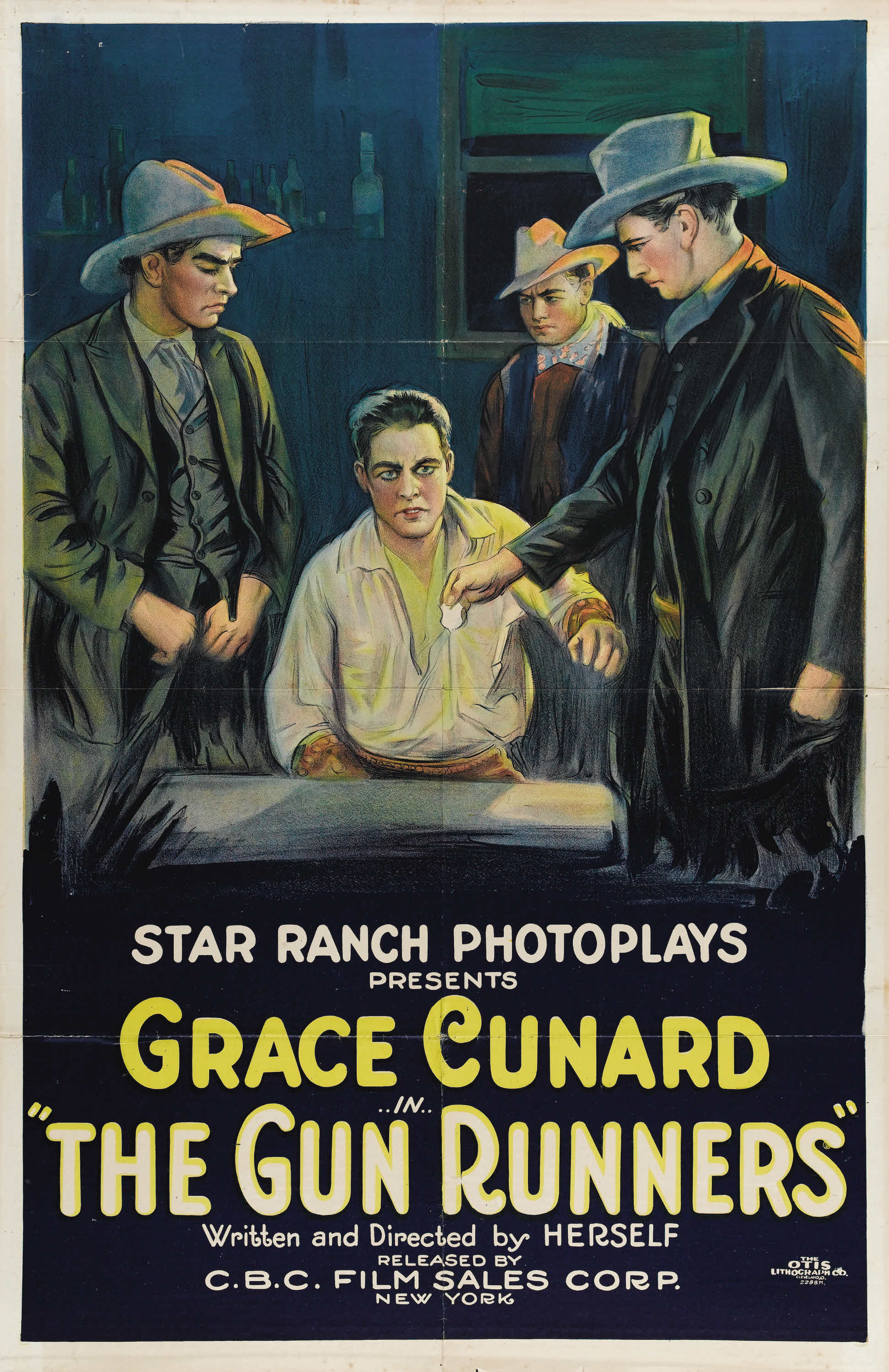 Poster for the American western film The Gun Runners (1921) with C. Edward Hatton.